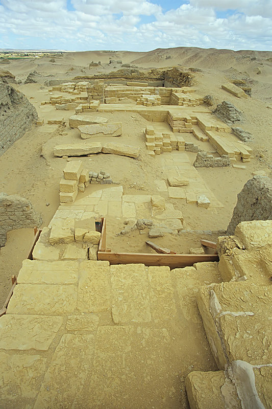 Stone temple of Soknobkonneus, Umm el-Athl (Bacchias), el-Fayyum, Egypt